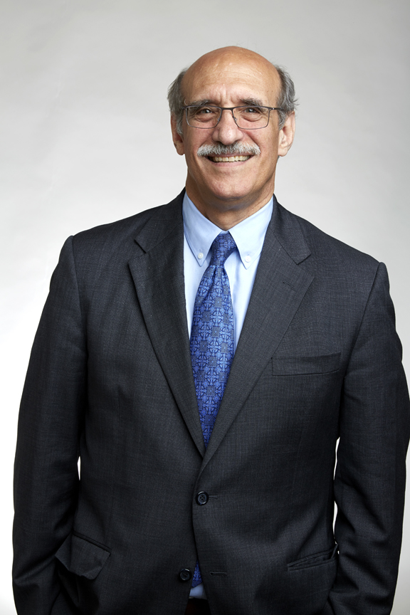 Martin Lee Chalfie is an American scientist. He is University Professor at Columbia University. He shared the 2008 Nobel Prize in Chemistry along with Osamu Shimomura and Roger Y. Tsien for the discovery and development of the green fluorescent protein Attribution: The Royal Society